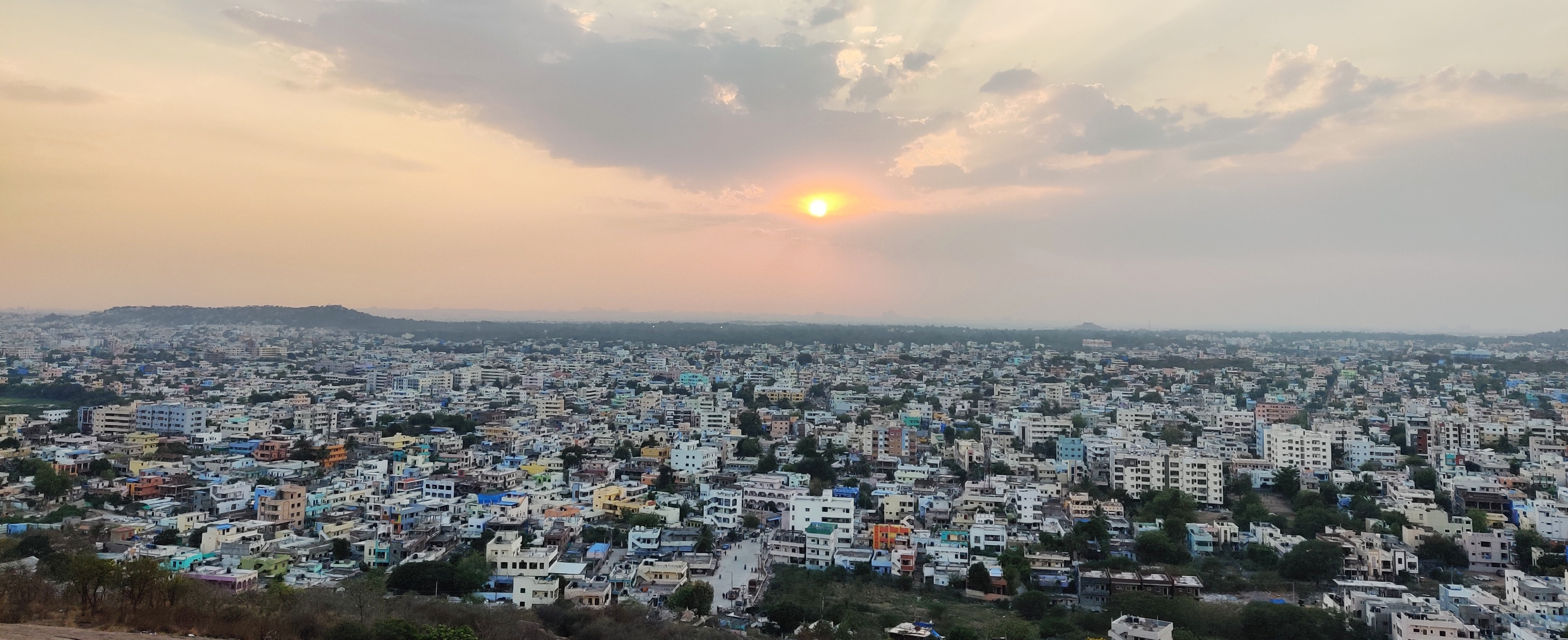 hill1